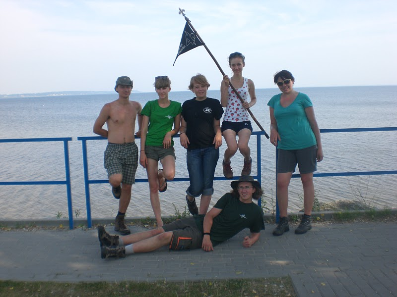 Obóz wędrowny "Północ-Południe" 2010